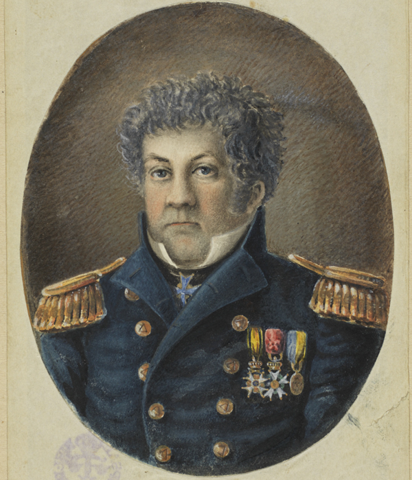 Carl af Forsell, Swedish officer, entrepreneur and publicist in the first half och the 19th Century. Se Swedish Wikipedia Carl af Forsell. The original of the portrait is with the Uppsala University Library, Uppsala, Sweden.